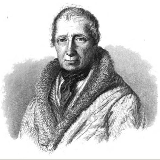 Leopold Schefer. In: The layman's breviary, or Meditations for every day in the year: From the German of Leopold Schefer. Roberts Brothers. Übersetzt: Charles Timothy Brooks